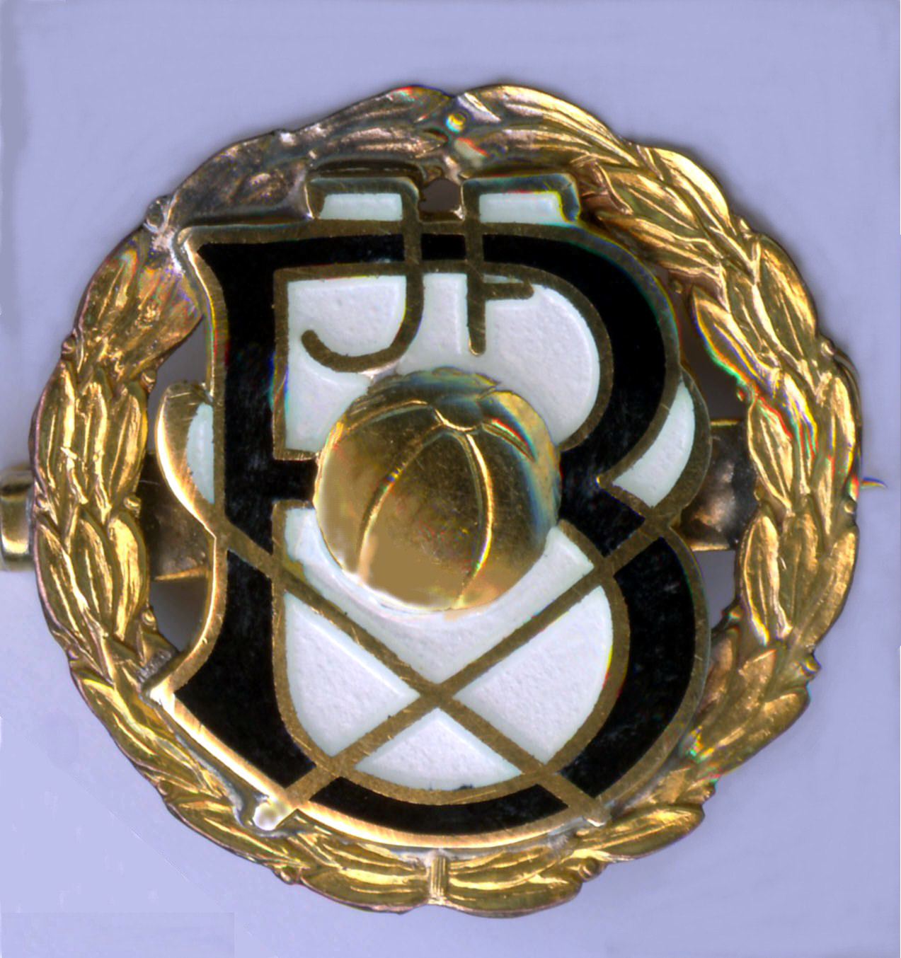 Bødalen IF Logo